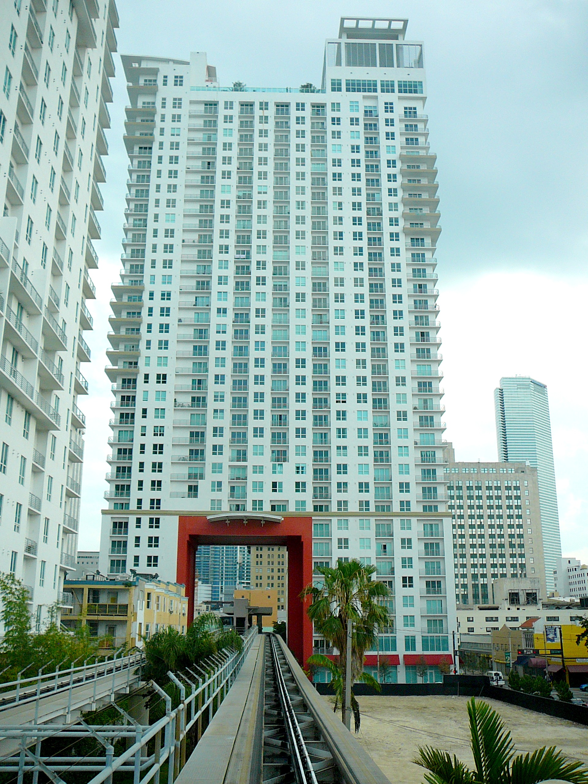 Digital photo taken by Marc Averette. The Loft II tower in downtown Miami on 5/10/2008